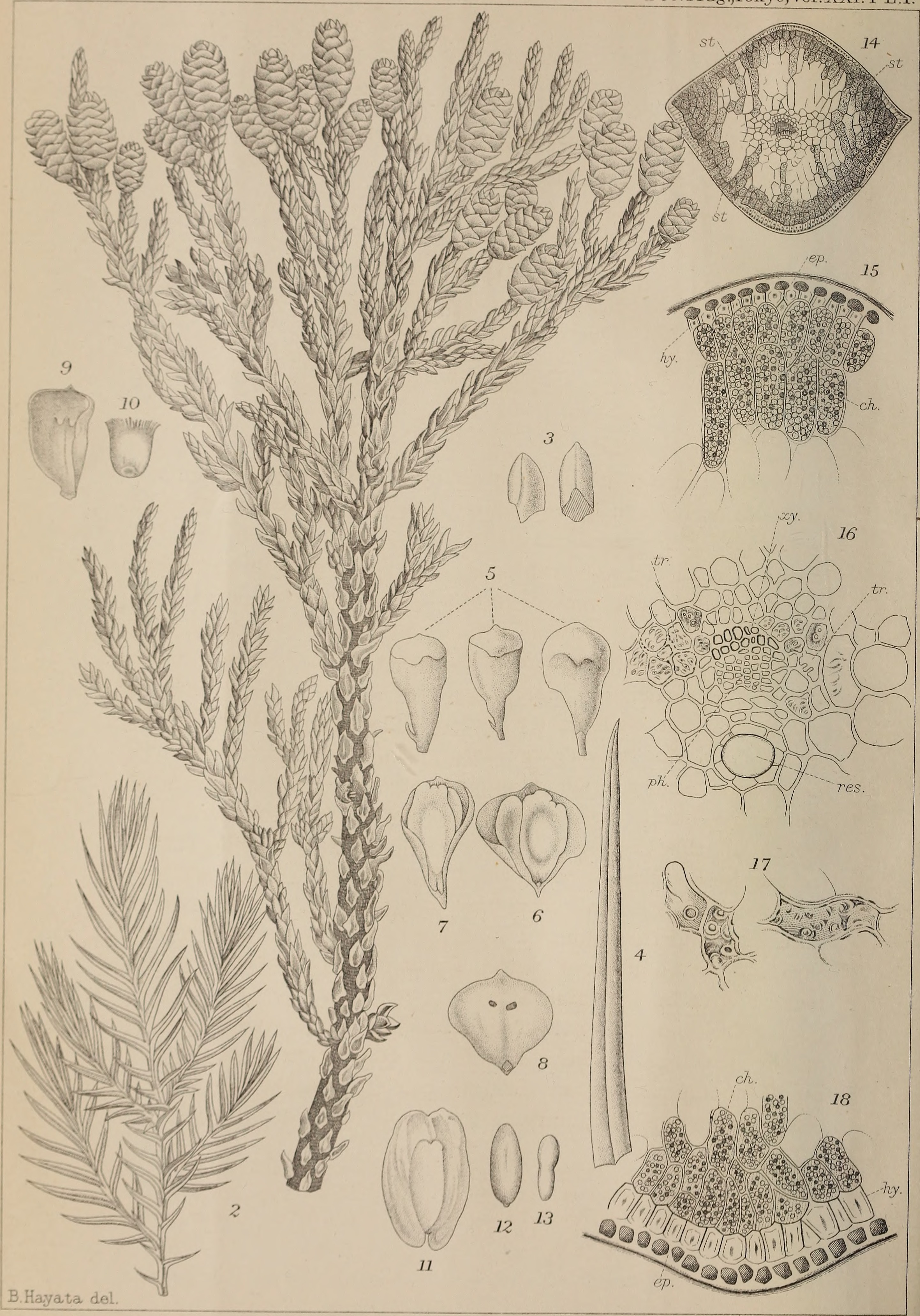 Title: The botanical magazine = Shokubutsugaku zasshi Year: 1887 (1880s) Authors: Tokyo Shokubutsu Gakkai; Nihon Shokubutsu Gakkai Subjects: Plants; Botany Publisher: Tokyo : Tokyo Botanical Society Text Appearing Before Image: I Taiwan! a or jptomerioide s Hay at a. 種物擊藥续* 二 i-ー眷第一 B ot .Mae.Tokyo.Vol.XXI. PL.T. Text Appearing After Image: '